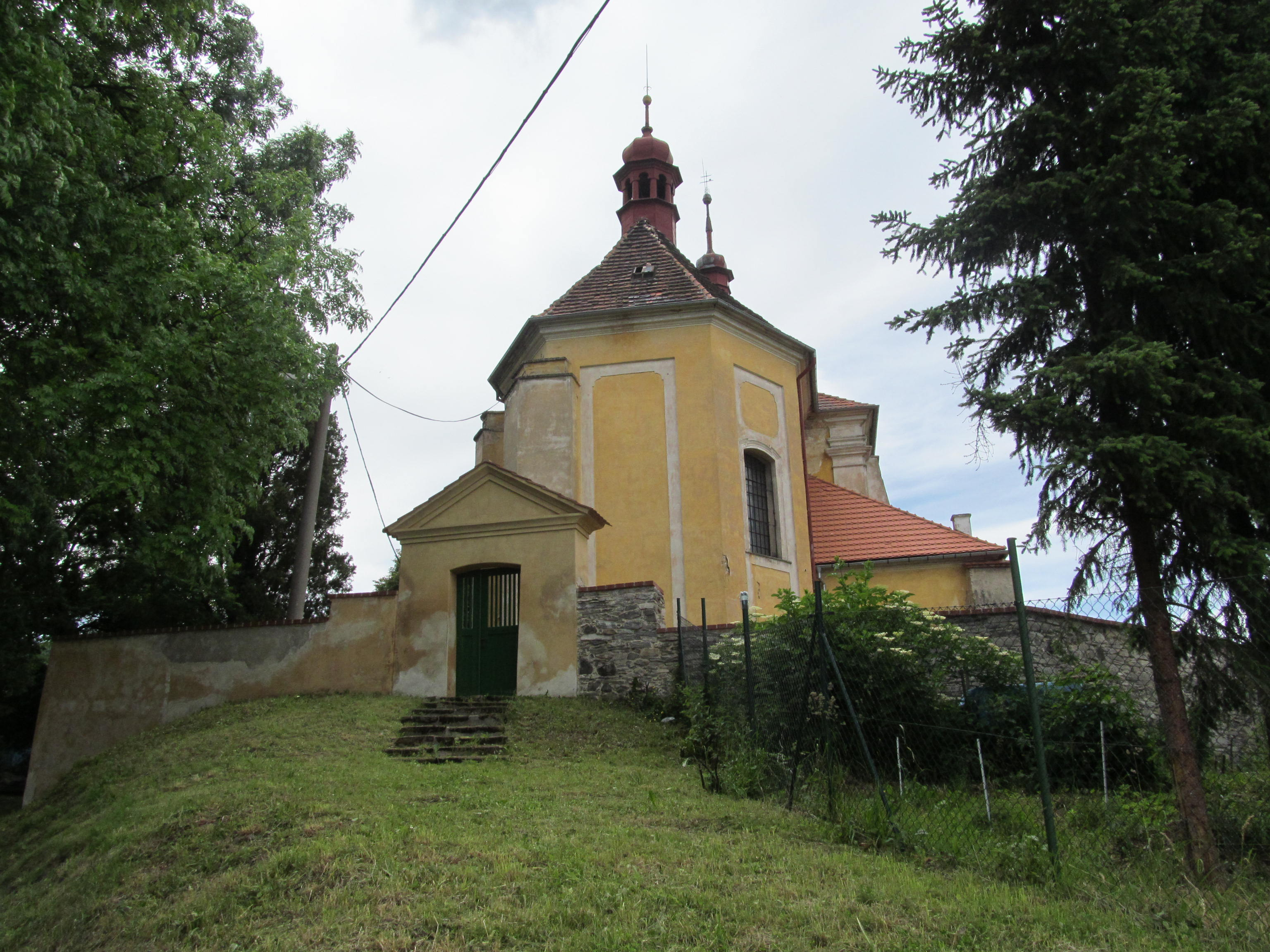 Presbytery of the church in Bořislav